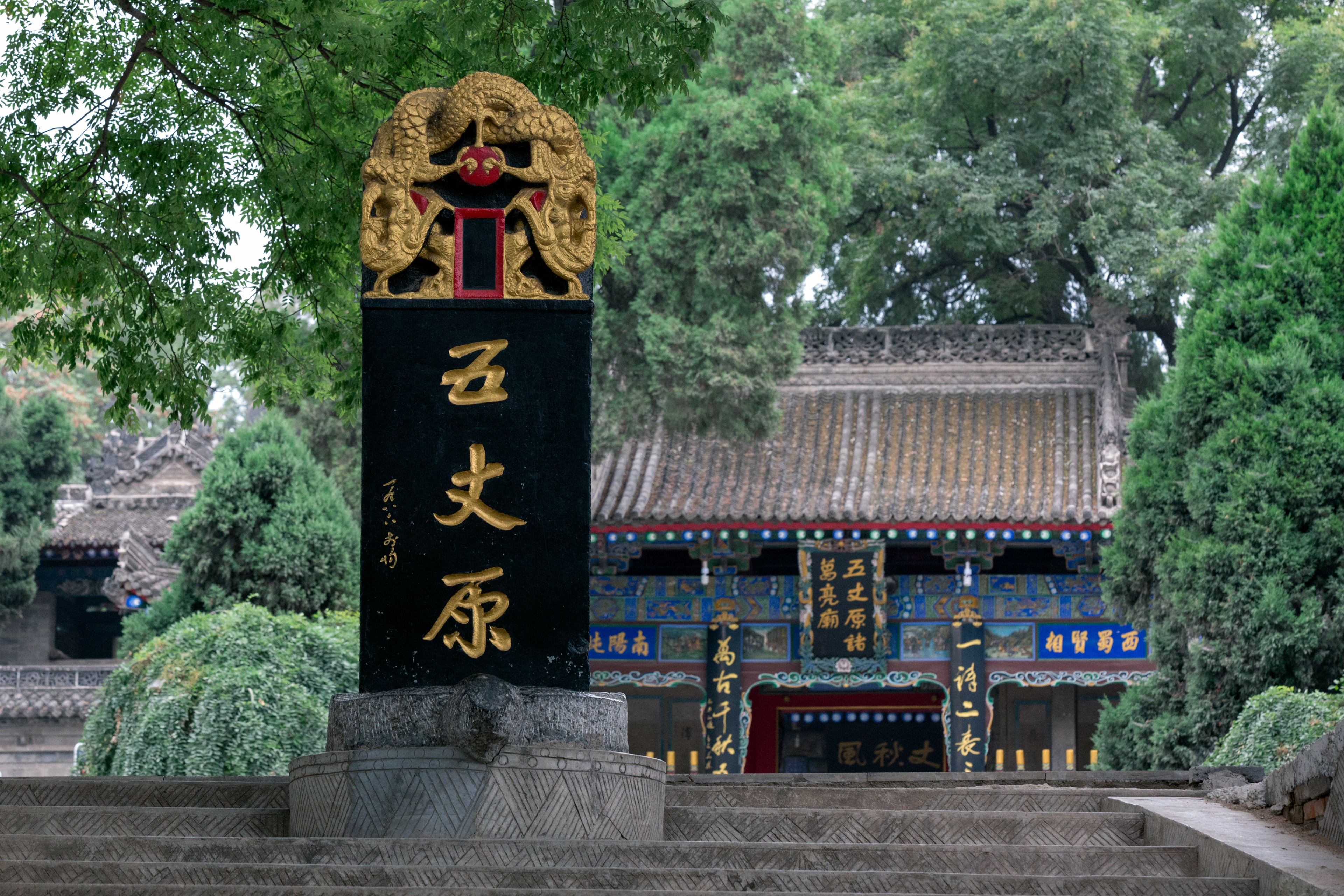 Entrance)